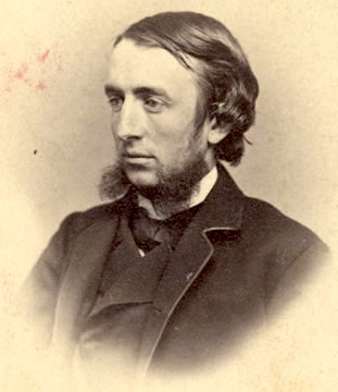 Andrew Dickson White, photographed in 1865 by the firm of Churchill and Denison.